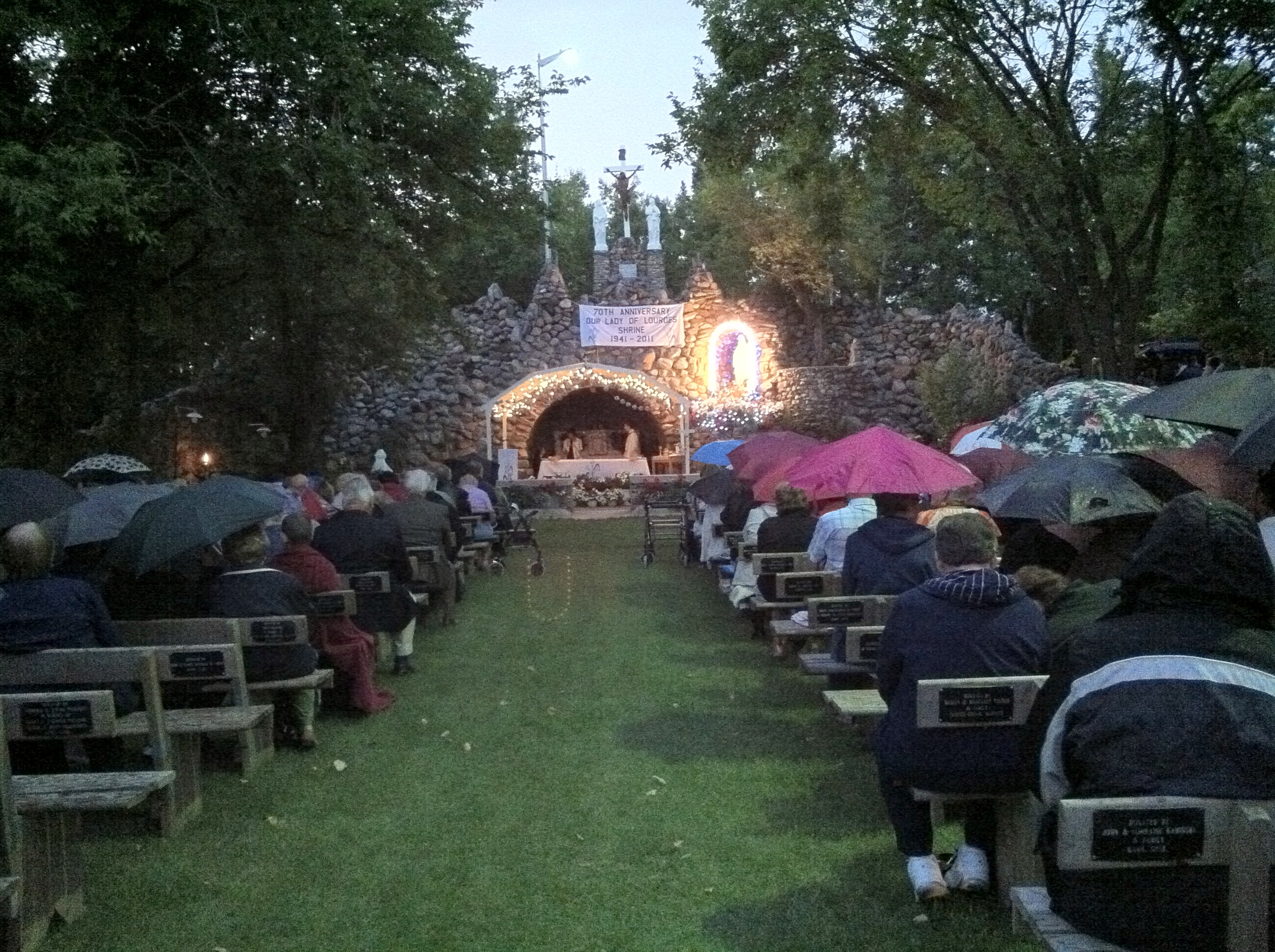 A photo taken during the annual pilgrimage in Rama, Saskatchewan, Canada.